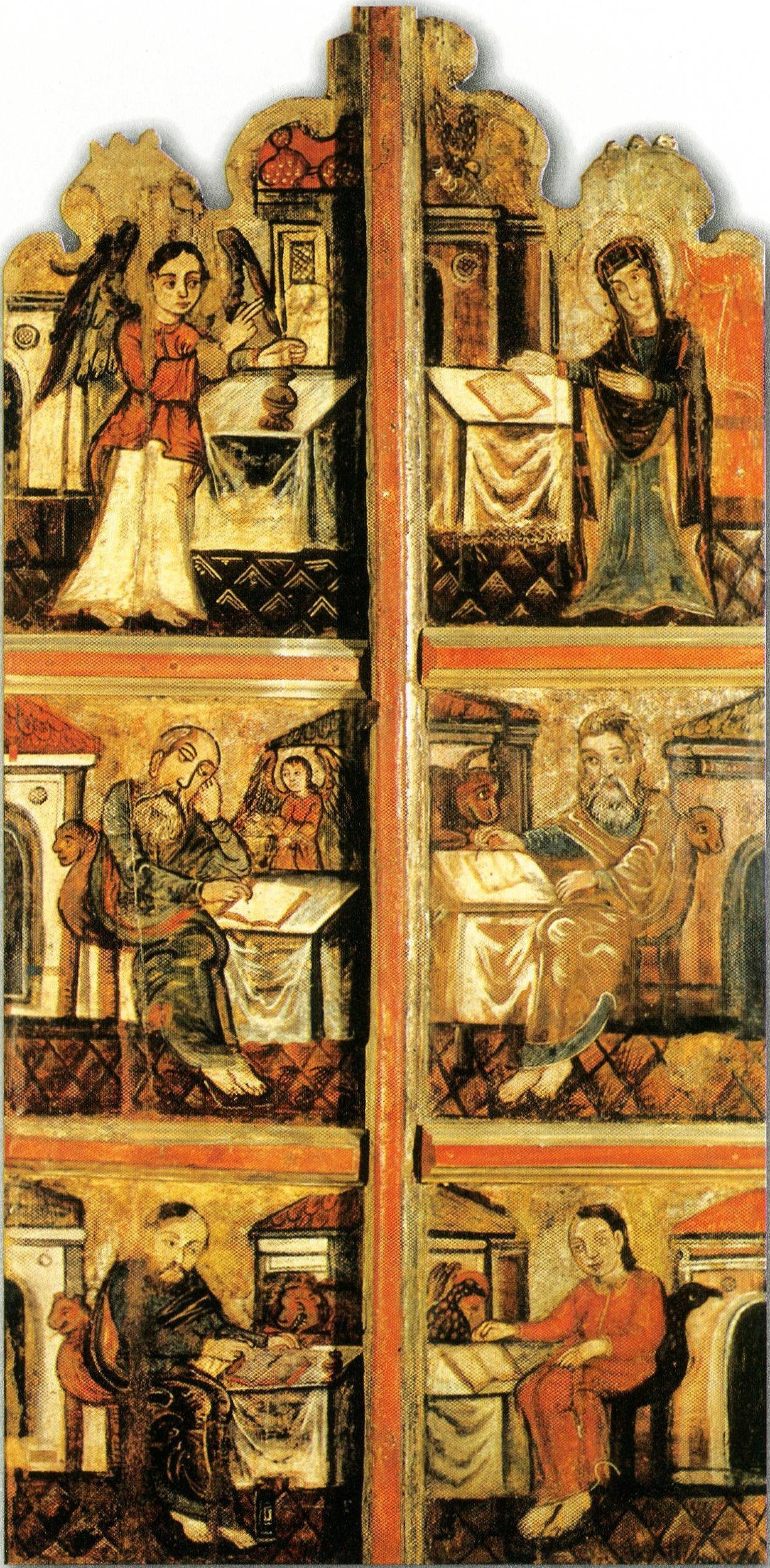 THE HOLY GATES. 17th с. Wood, tempera. The Trinity Church, Dabraslauka, Pinsk district, Brest region. Restoration - A. Shpunt, P. Zhurbey.